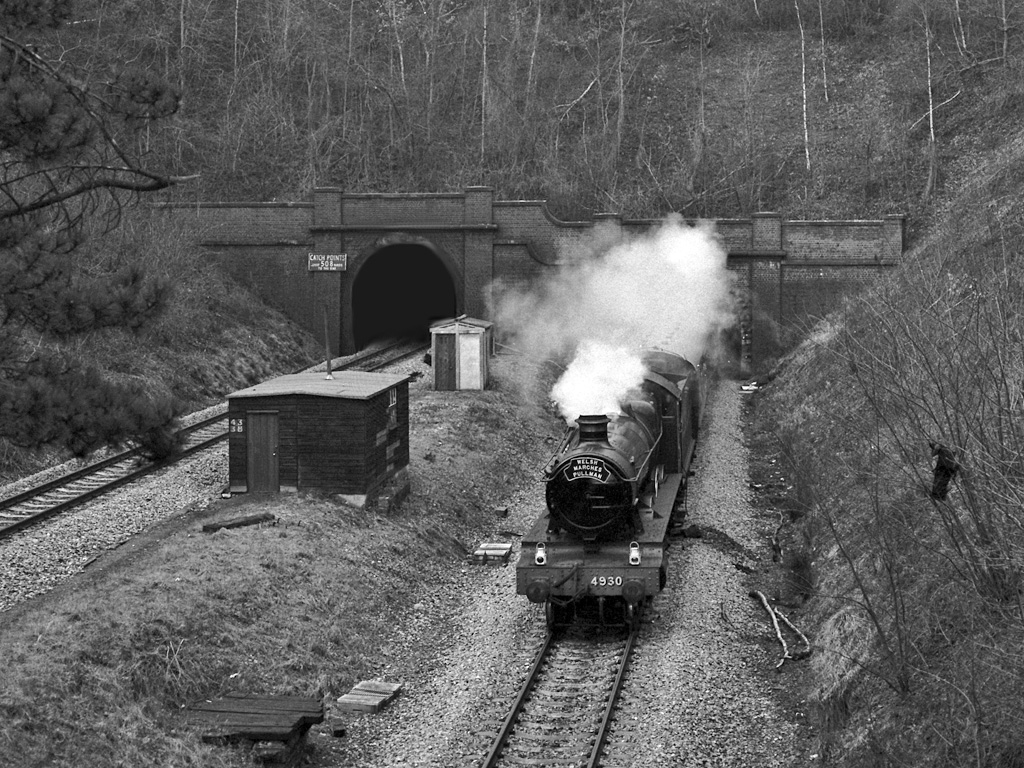 Great Western Railway Collett D 4-6-0 '4900/Hall' class locomotive number 4930 HAGLEY HALL of Wolverhampton (Stafford Road) MPD emerges from Dinmore Old Tunnel on the Down Main line with a Welsh Marches Pullman charter. Saturday 26th February 1983